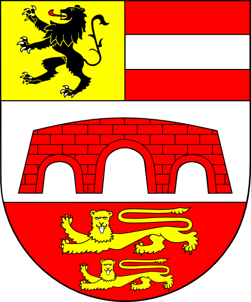 Coat of arms (shield only) of Eduard Macheiner, archbishop of Salzburg (1969 - 1972). Based on his gravestone and this medal: tinctures based on this